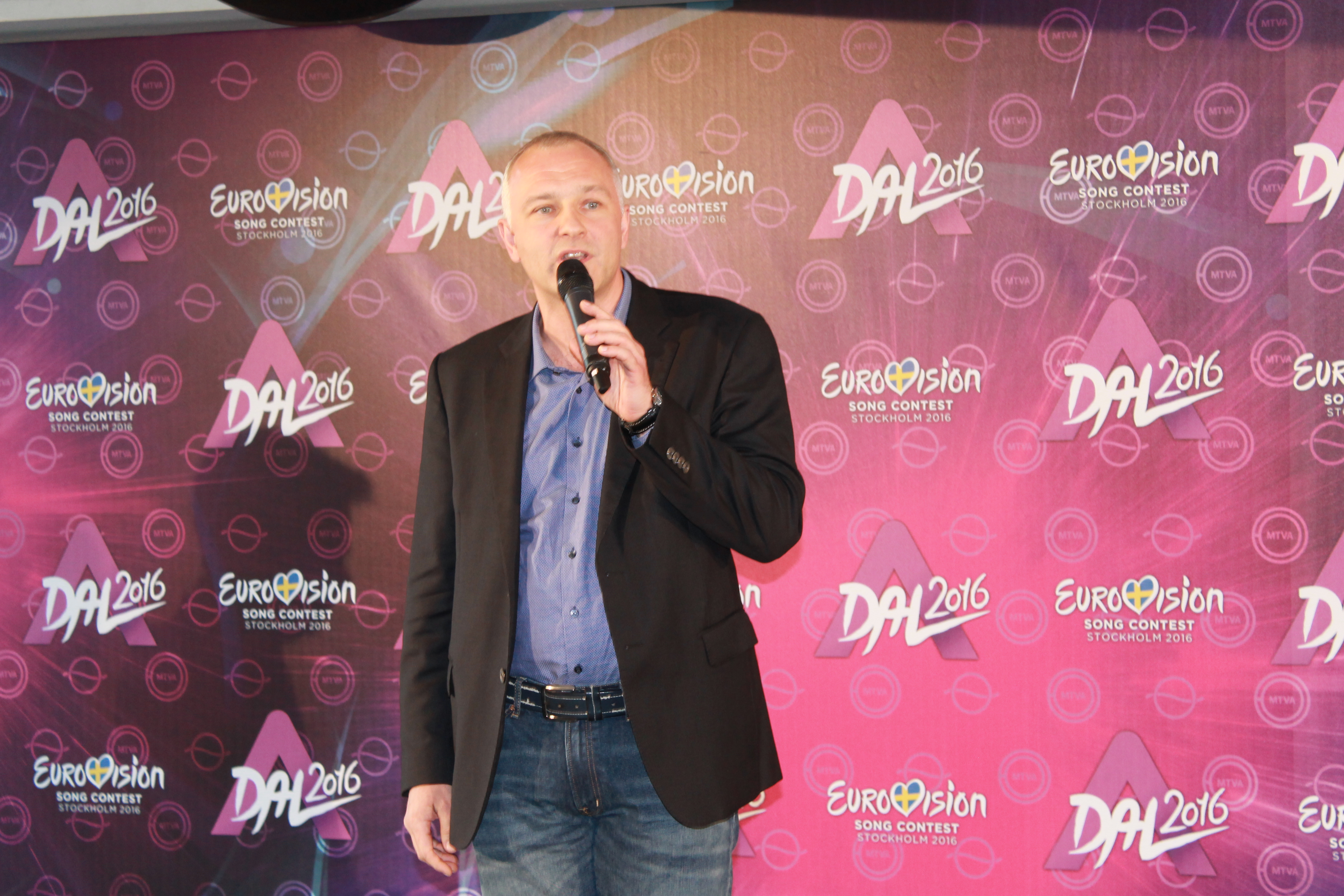 Balázs Medveczky, the director of the Duna Media Service Provider Ltd. on the press conference of A Dal 2016